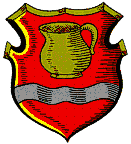 Coat of Arms of Hafenlohr